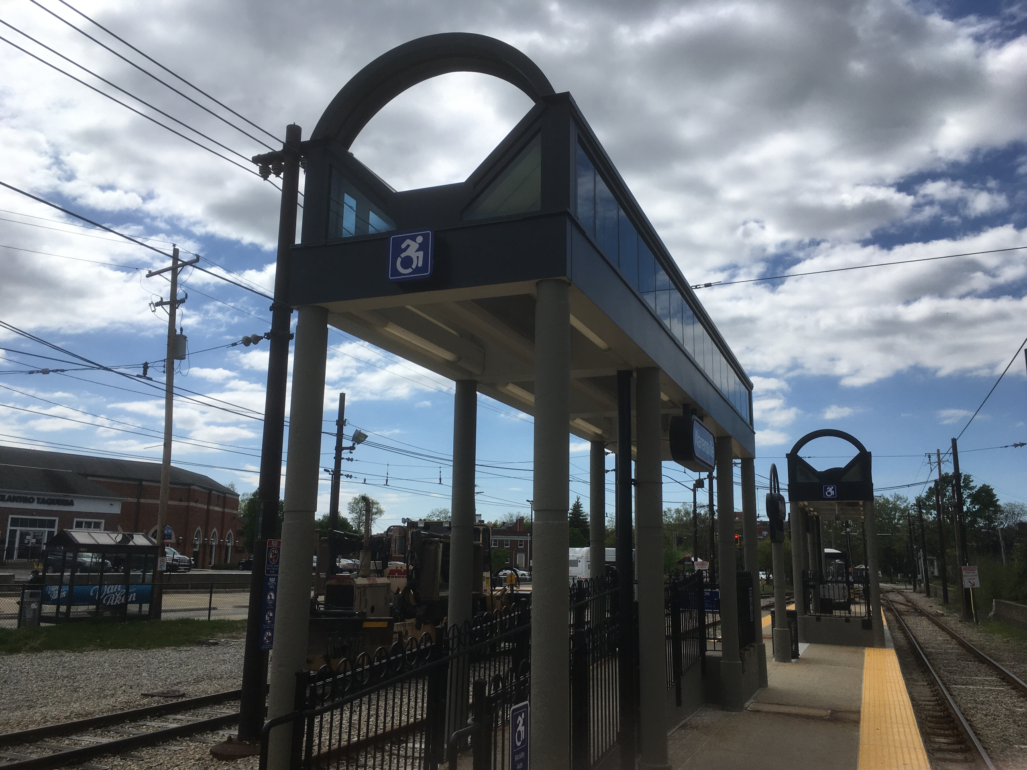 Warrensville-Van Aken 2020 ramp